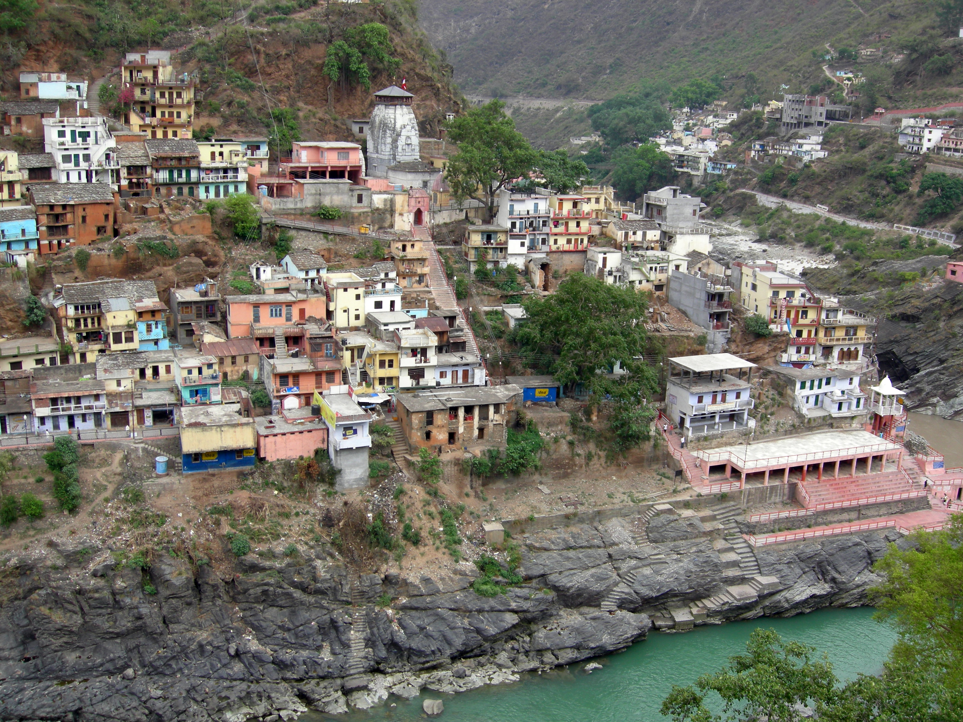 Devprayag, India.